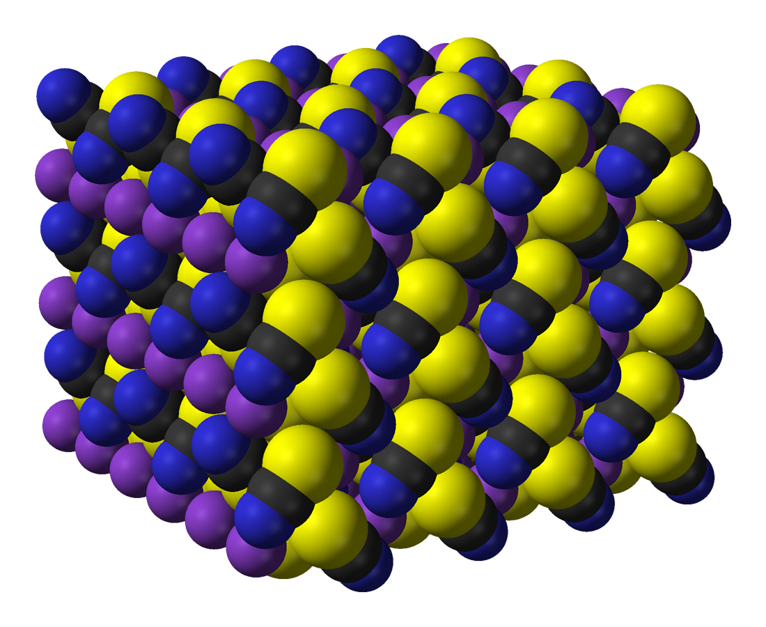 Space-filling model of part of the crystal structure of potassium thiocyanate, KSCN.